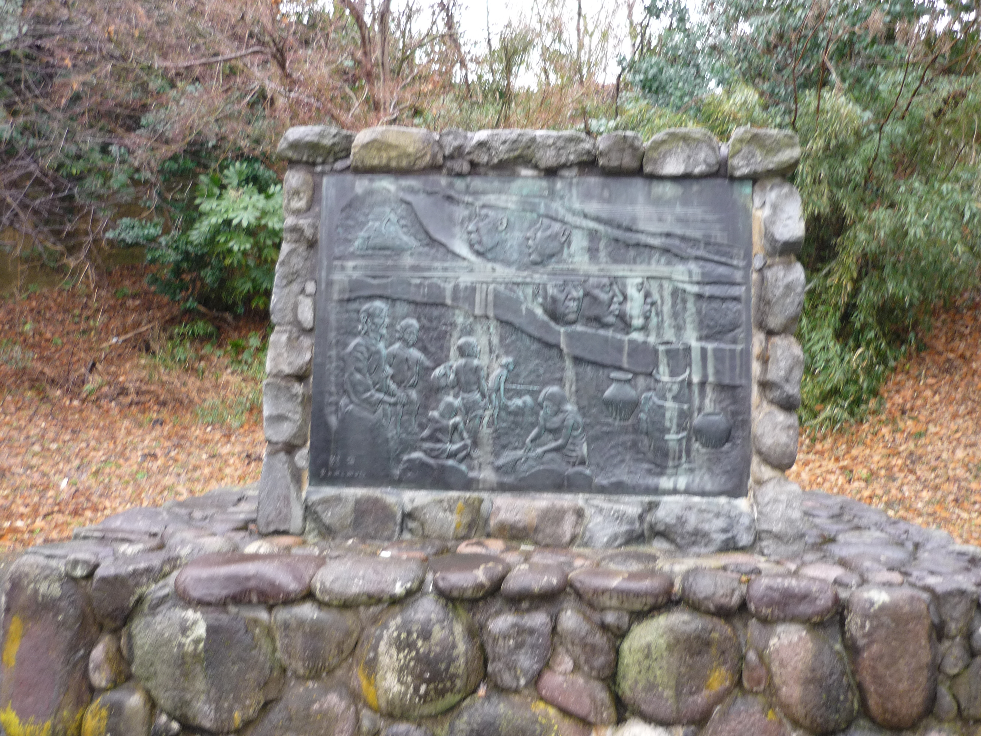 Fukui remains ruins monument